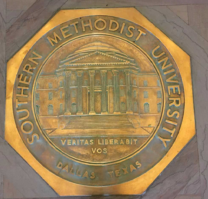 The SMU seal, set in the floor of the main entryway in Dallas Hall